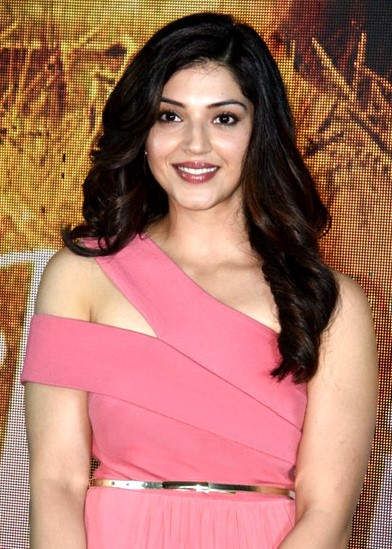 Mehreen Pirzada grace the media meet of Phillauri.